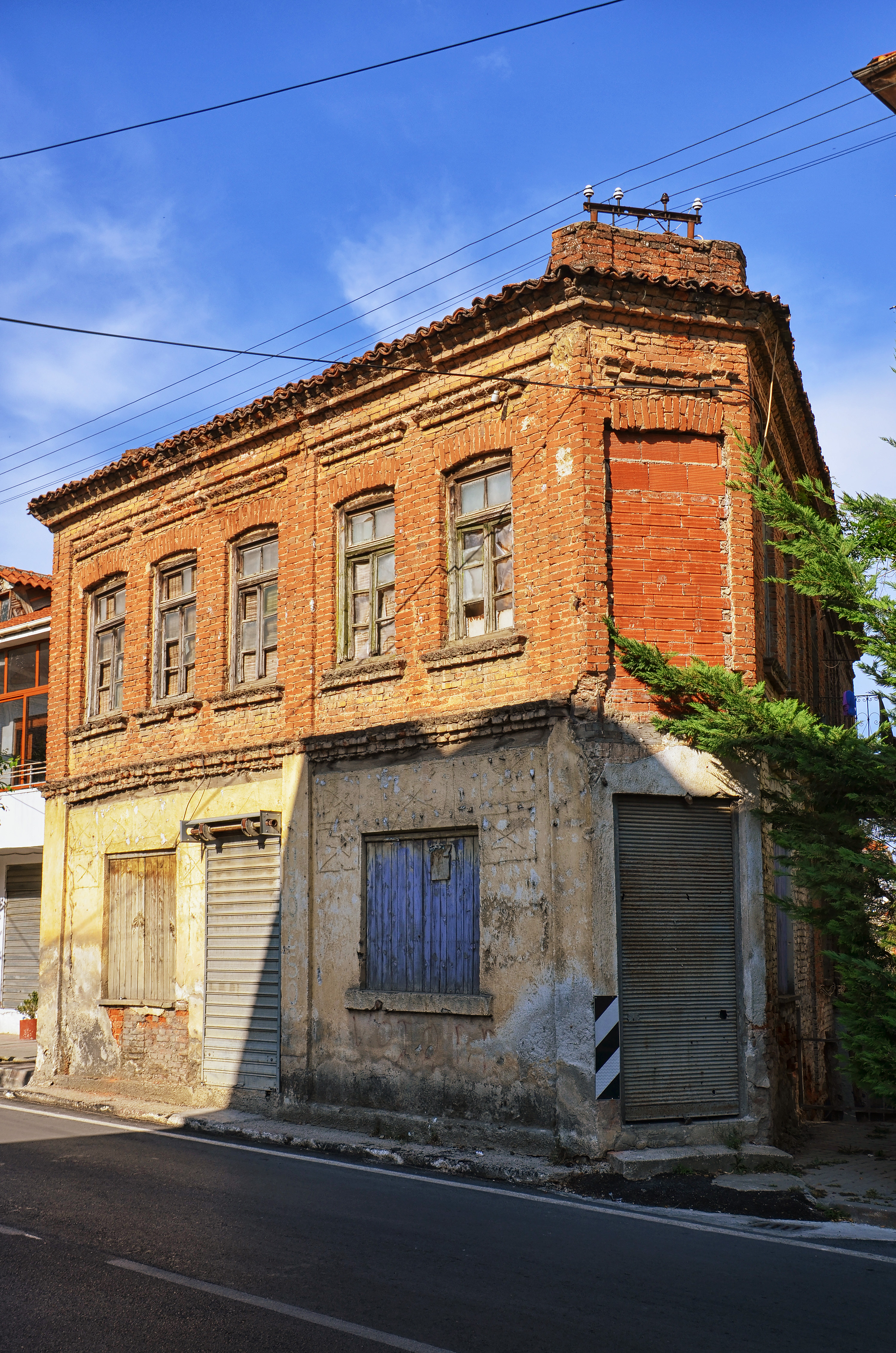 Brick house in the Kajo Karafili Street in Pogradec, Albania